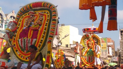 During tirttavari kumbakonam kumbeswarar on palanquin தீர்த்தவாரியின்போது கும்பகோணம் கும்பேஸ்வரர் பல்லக்கில் வருதல்